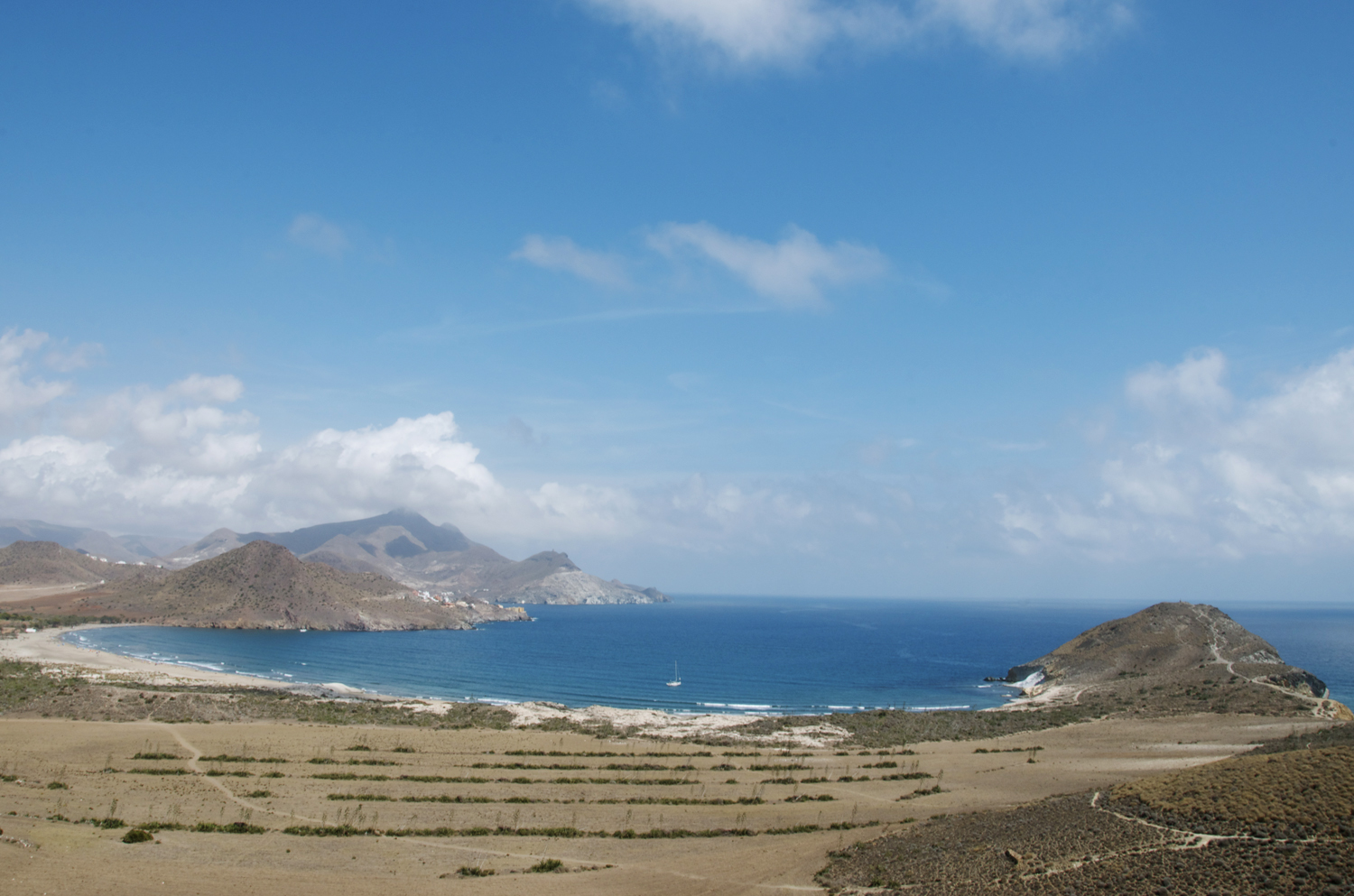 A view of the entire bay of Playa de los Genoveses from Campillo de los Genoveses.